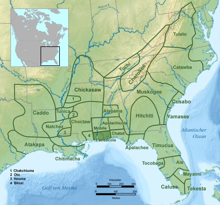 Tribal territory of Pensacola during sixteenth century